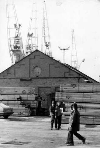 Photos of arrest at Earth First protest in UK.